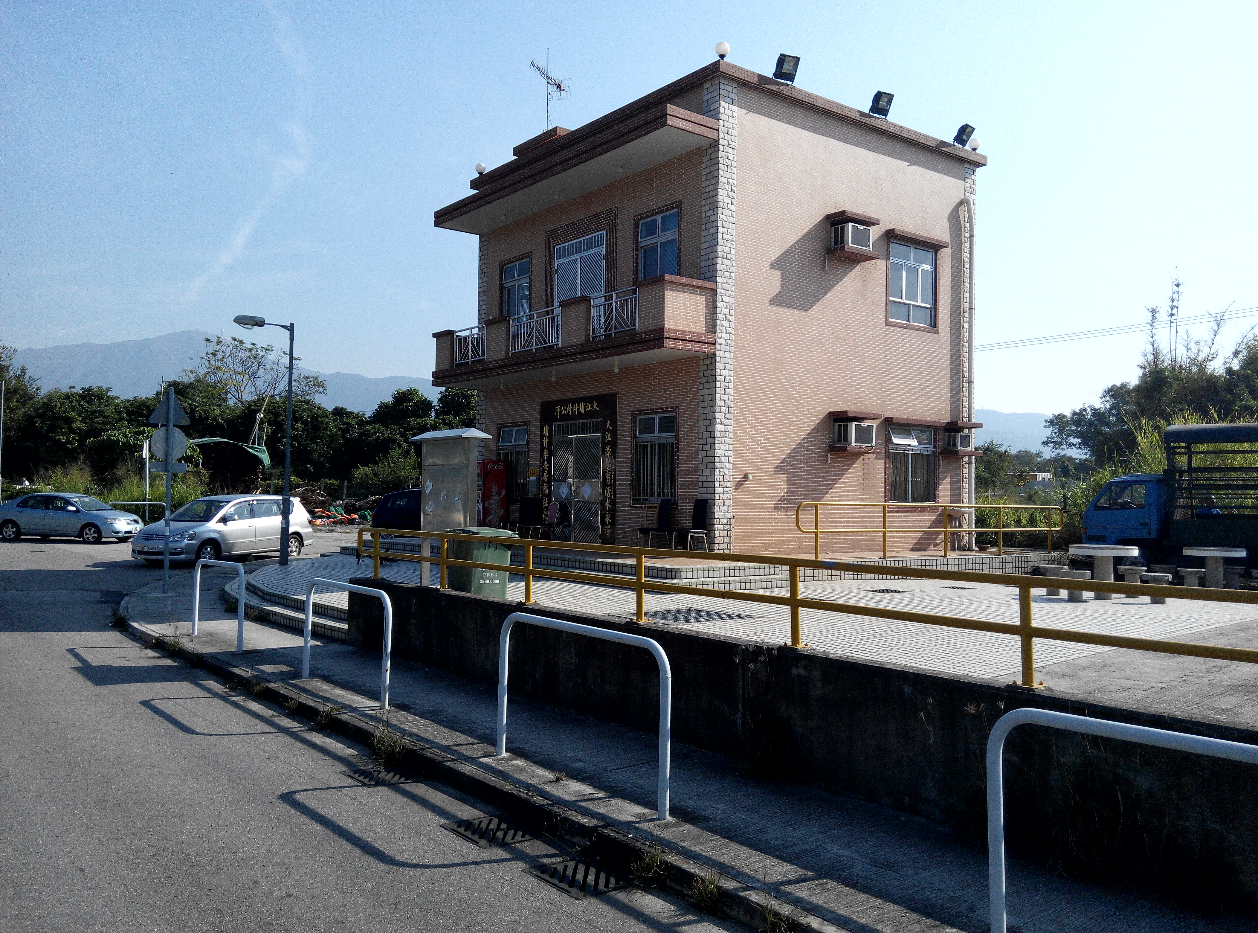 Tai Kong Po Village Office